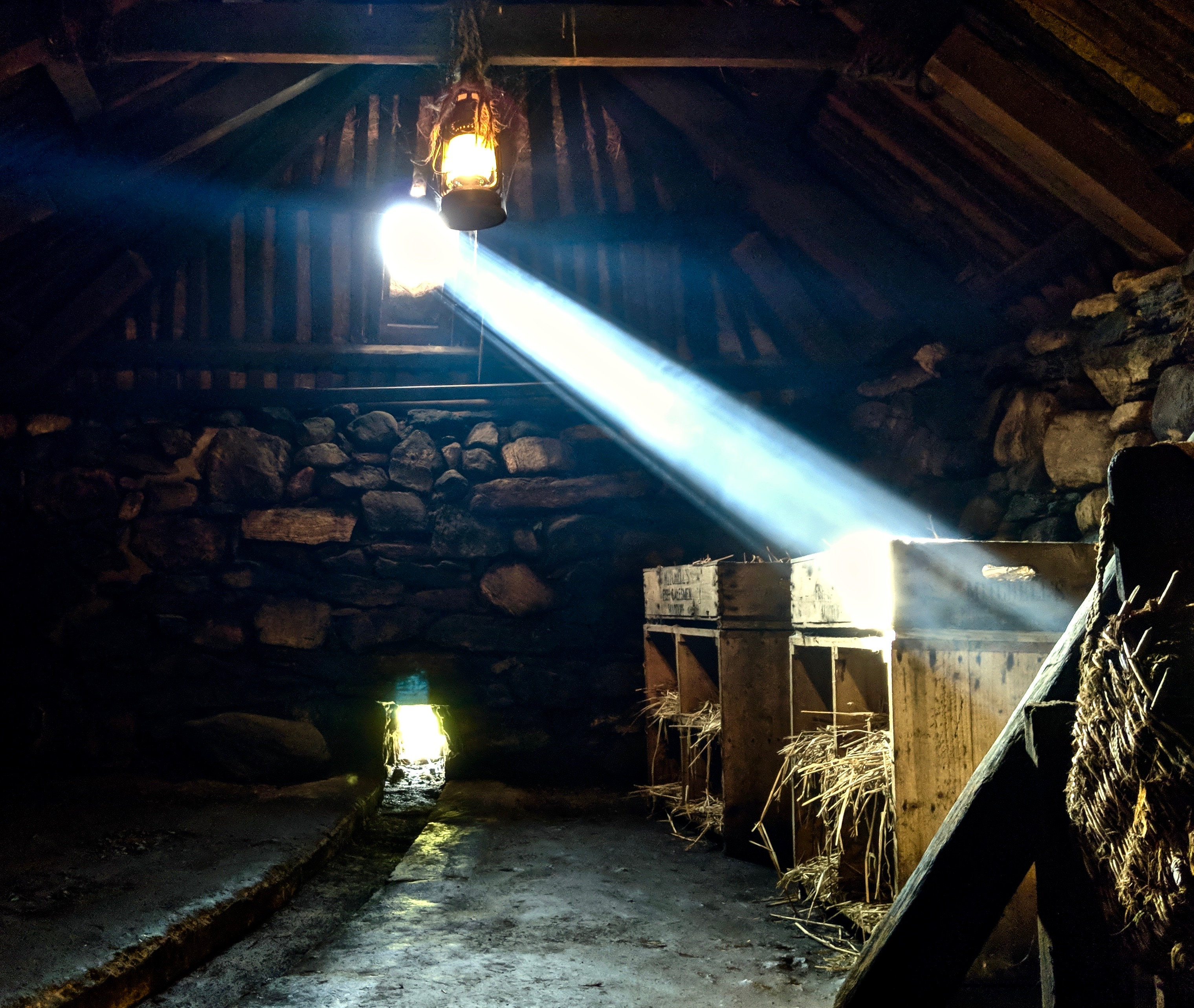 Inside of Arnol Blackhouse, a traditional Hebridean homestead on the Isle of Lewis last occupied in 1965.